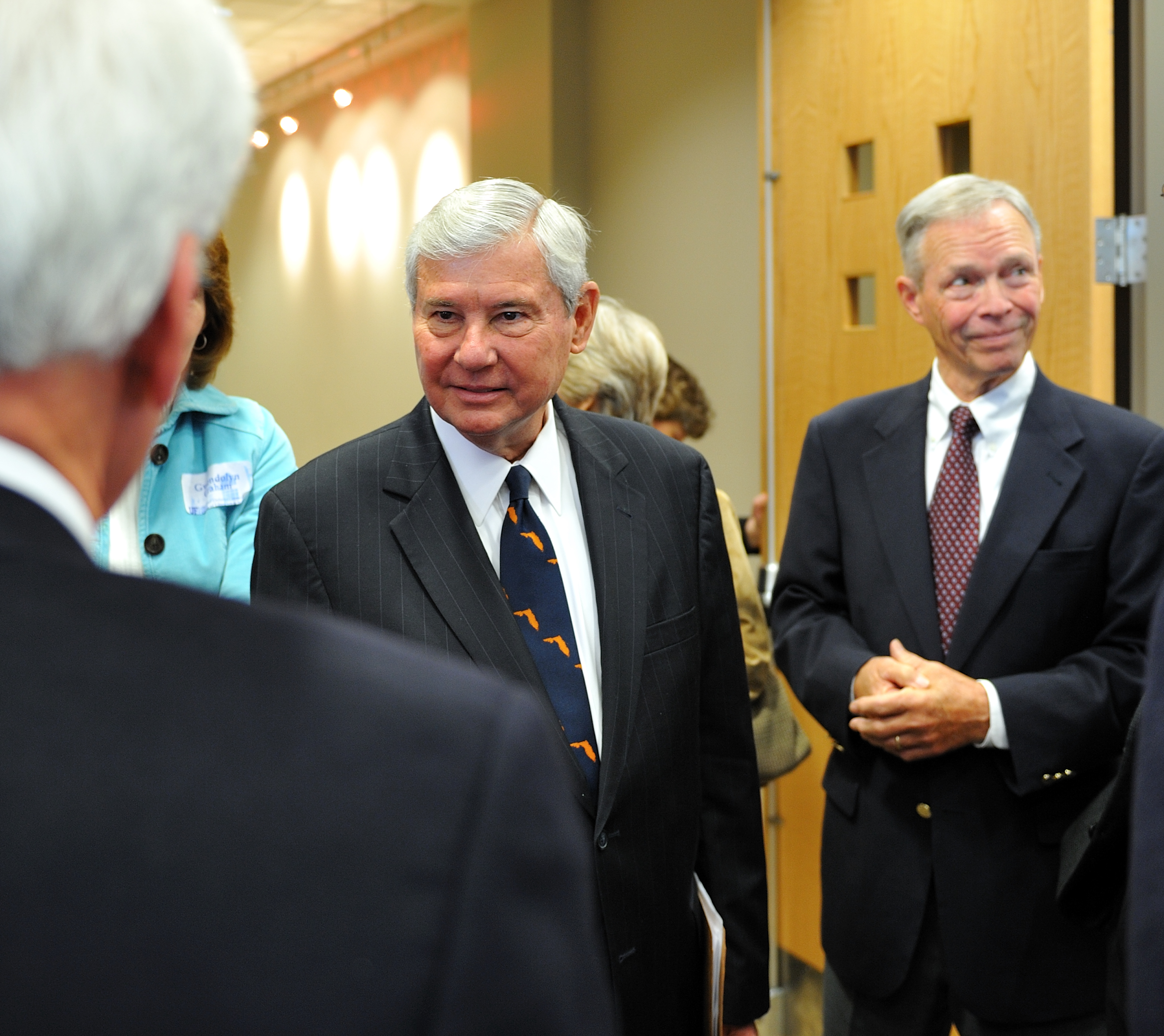 Former U.S. Senator Bob Graham speaks with attendees at the dedication of Pugh Hall at the University of Florida, which will be home to the Bob Graham Center for Public Service. Graham stands with another former Governor of Florida, Kenneth "Buddy" MacKay, who was honored at the dedication ceremony.